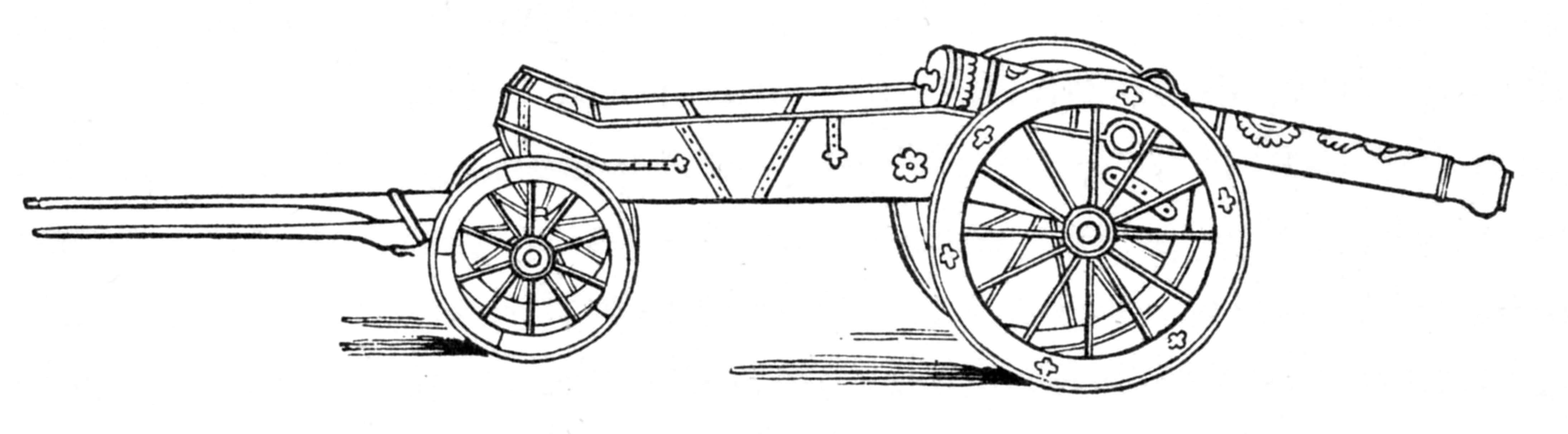 Engraving of a limber ca. 1461